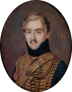 Portrait of Théodore Stéphan de La Rue de Saint-Léger, 2nd Marquis of Bemposta and (Count of) Subserra.